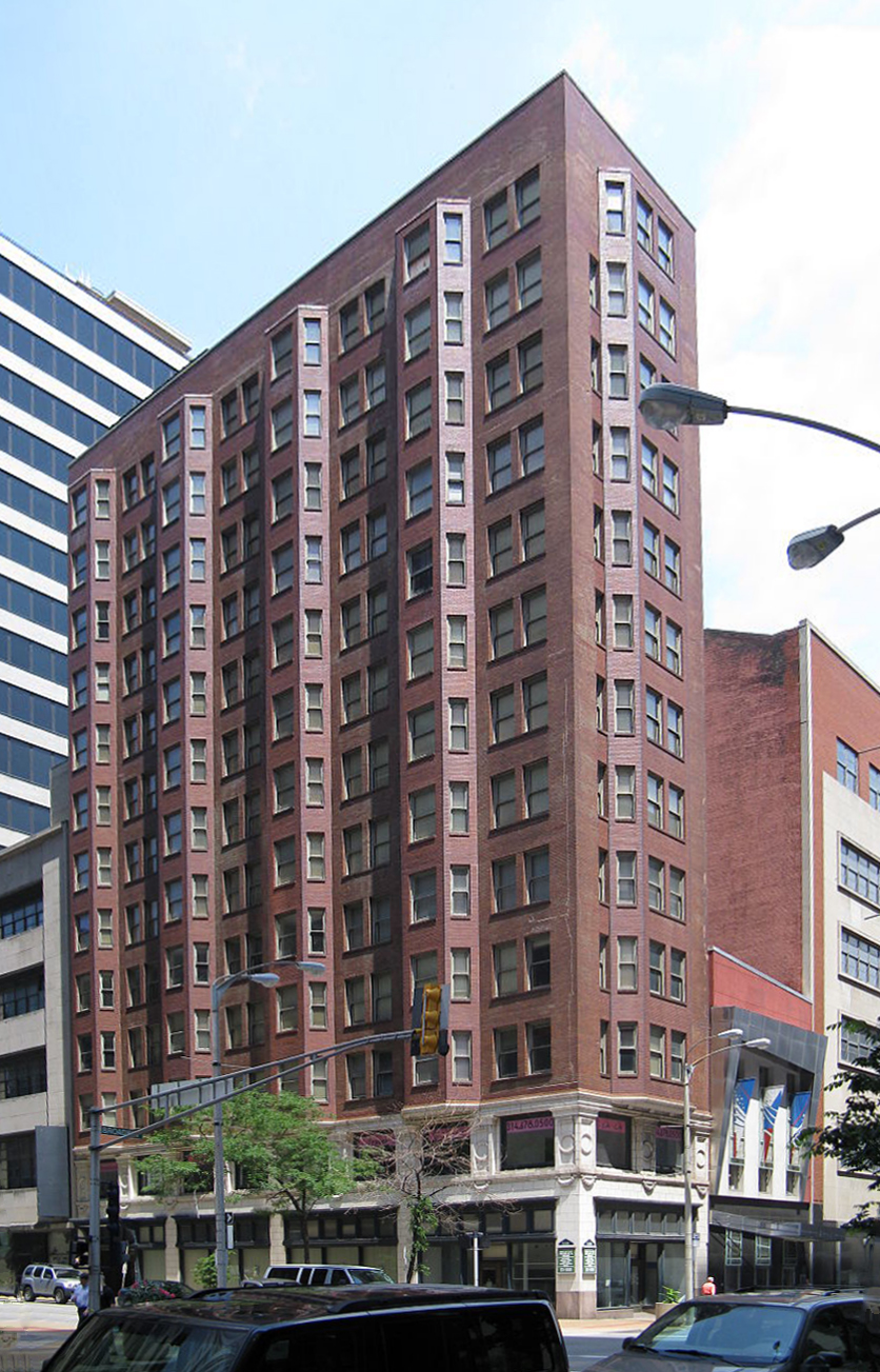 The LaSalle Building at 501 Olive Street in St. Louis, Missouri. It is listed on the National Register of Historic Places.